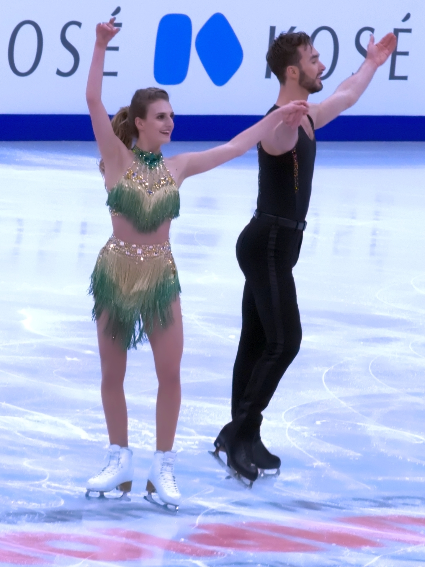 Gabriella Papadakis and Guillaume Cizeron at the 2018 European Figure Skating Championships in Moscow